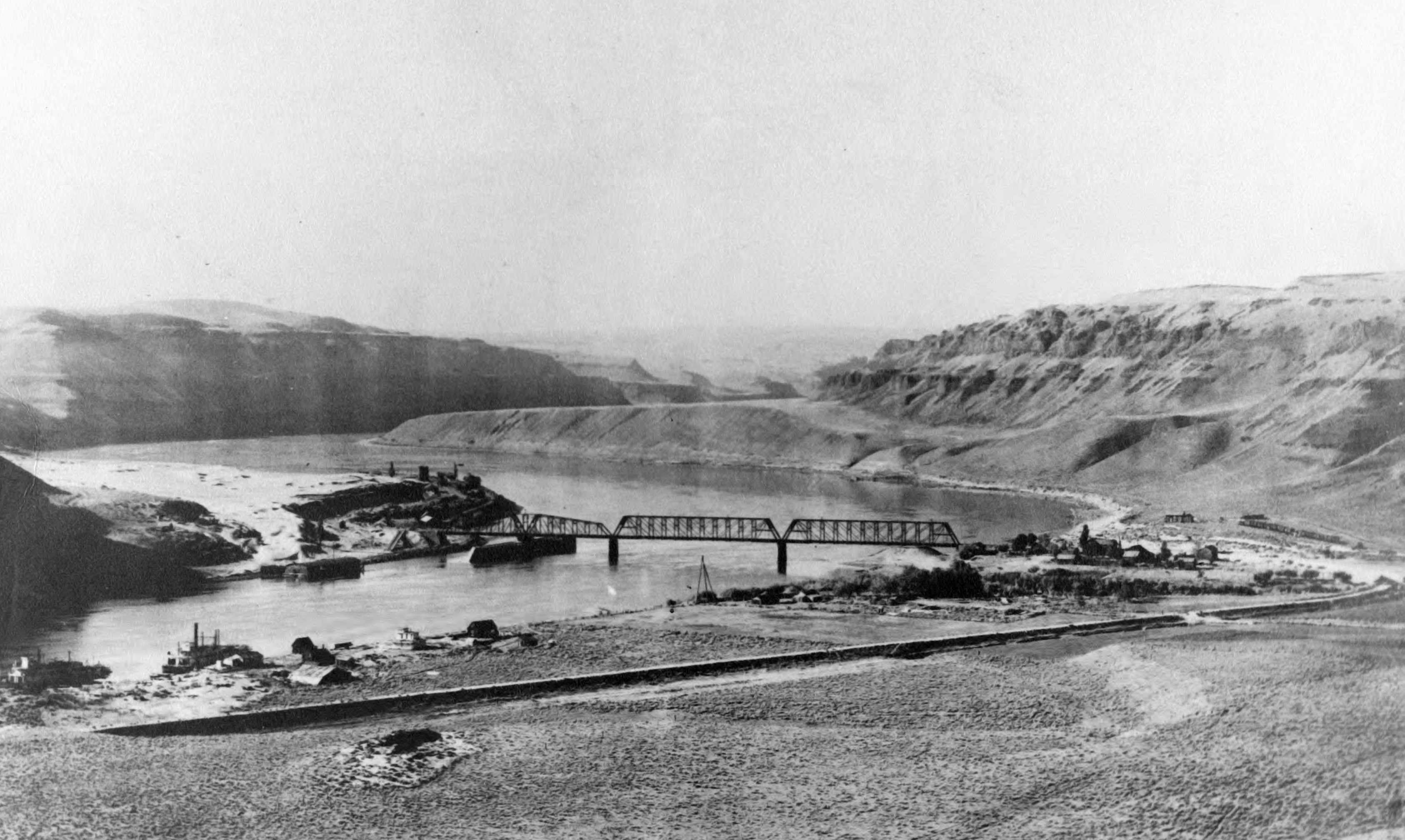 Riparia Bridge over the Snake River at Riparia, Washington, 1898